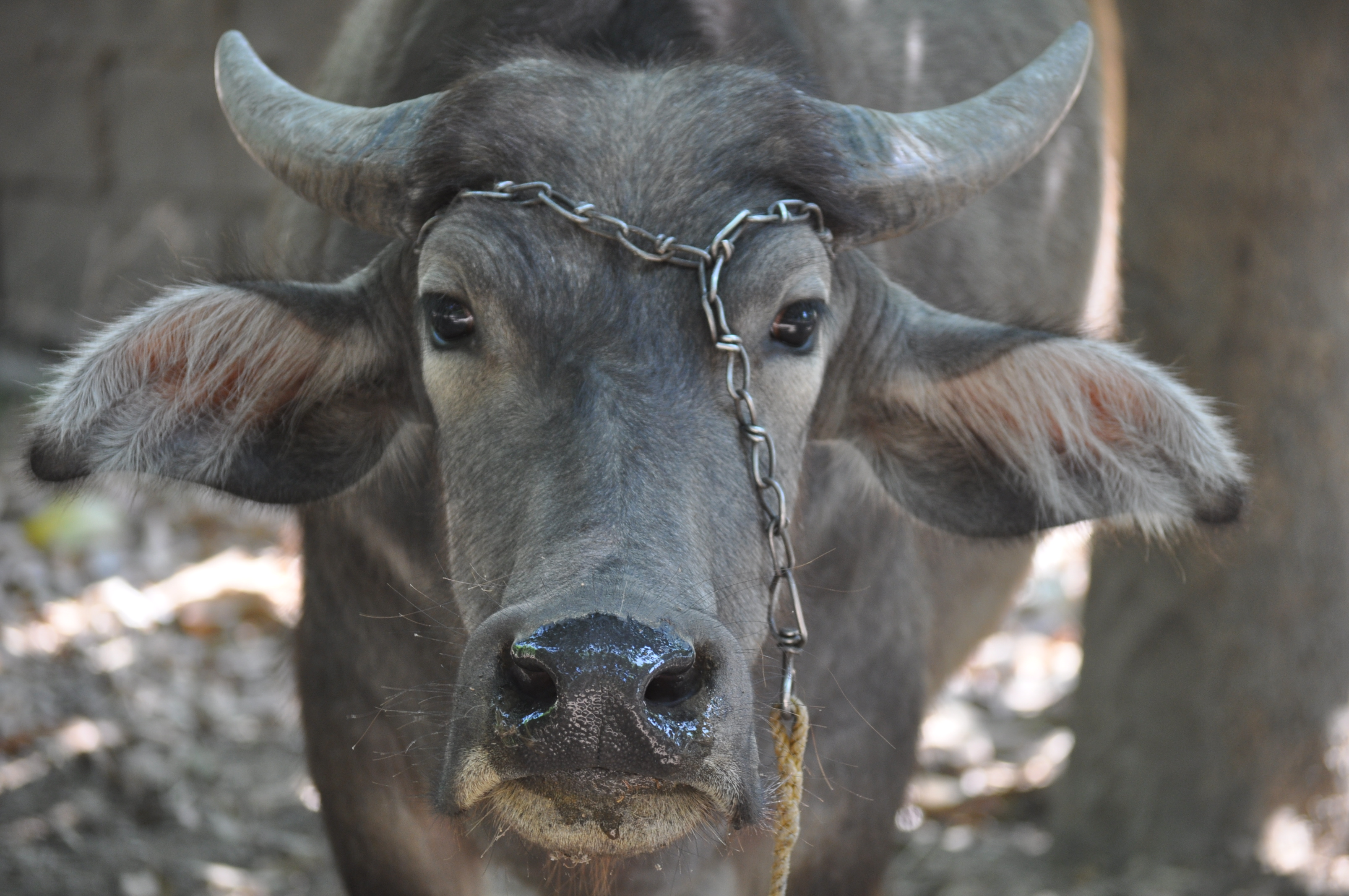 A common beast of burden in the Philippines. Photo taken in Tarlac, Philippines